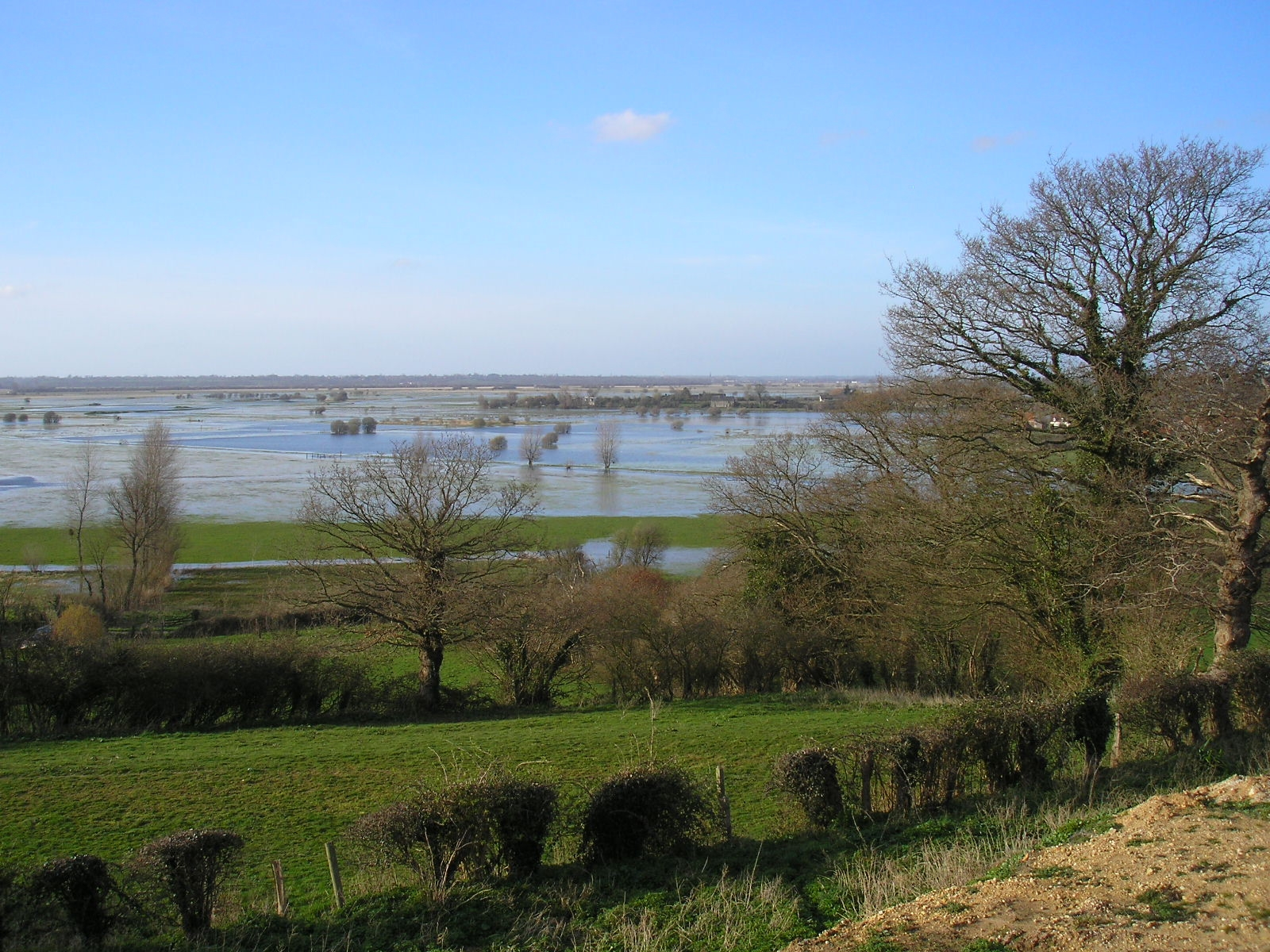 Graignes-Mesnil-Angot(Normandy, France). Sight towards the marsh of Cotentin from the borough of Graignes.